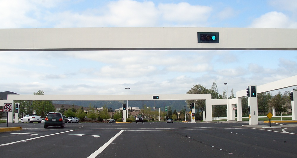 A typical traffic light arrangement in the Hacienda neighborhood of Pleasanton.